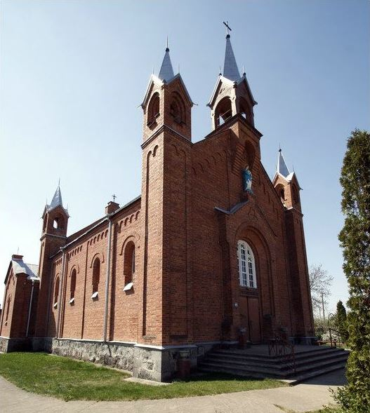 St Mary the Virgin Roman Catholic Church in the Grīva area of Daugavpils, Lavia.